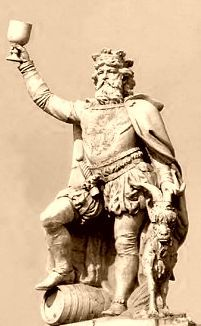 Old Falstaff Brewery building, Mid City New Orleans. View with decorative figure of a man hoisting a drinking cup. "Who is this?" Alternative local stories say the figure is Falstaff, or King Gambrinus.